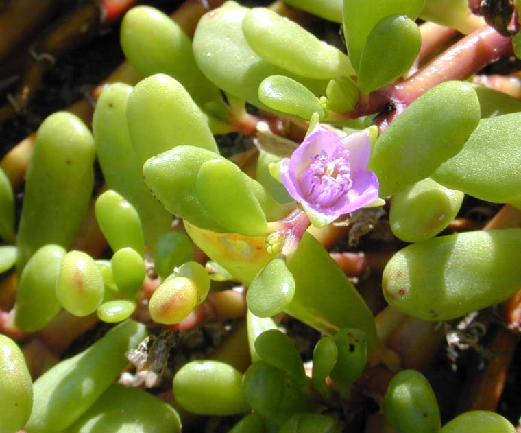 Sesuvium portulacastrum (L.) L.; flower and leaves up close, photographed in Hawai‘i